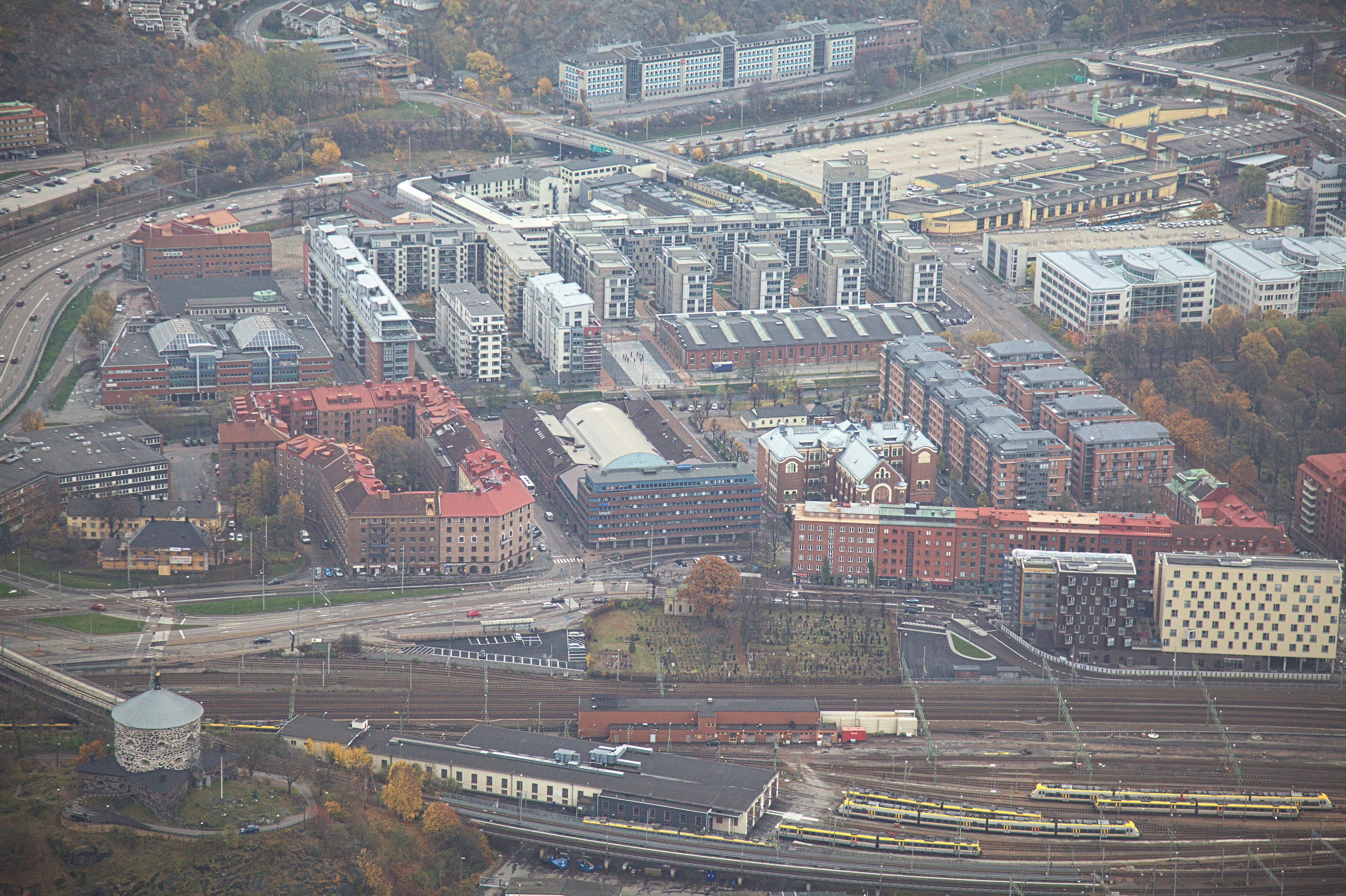 Photo taken on a helicopter over Gothenburg